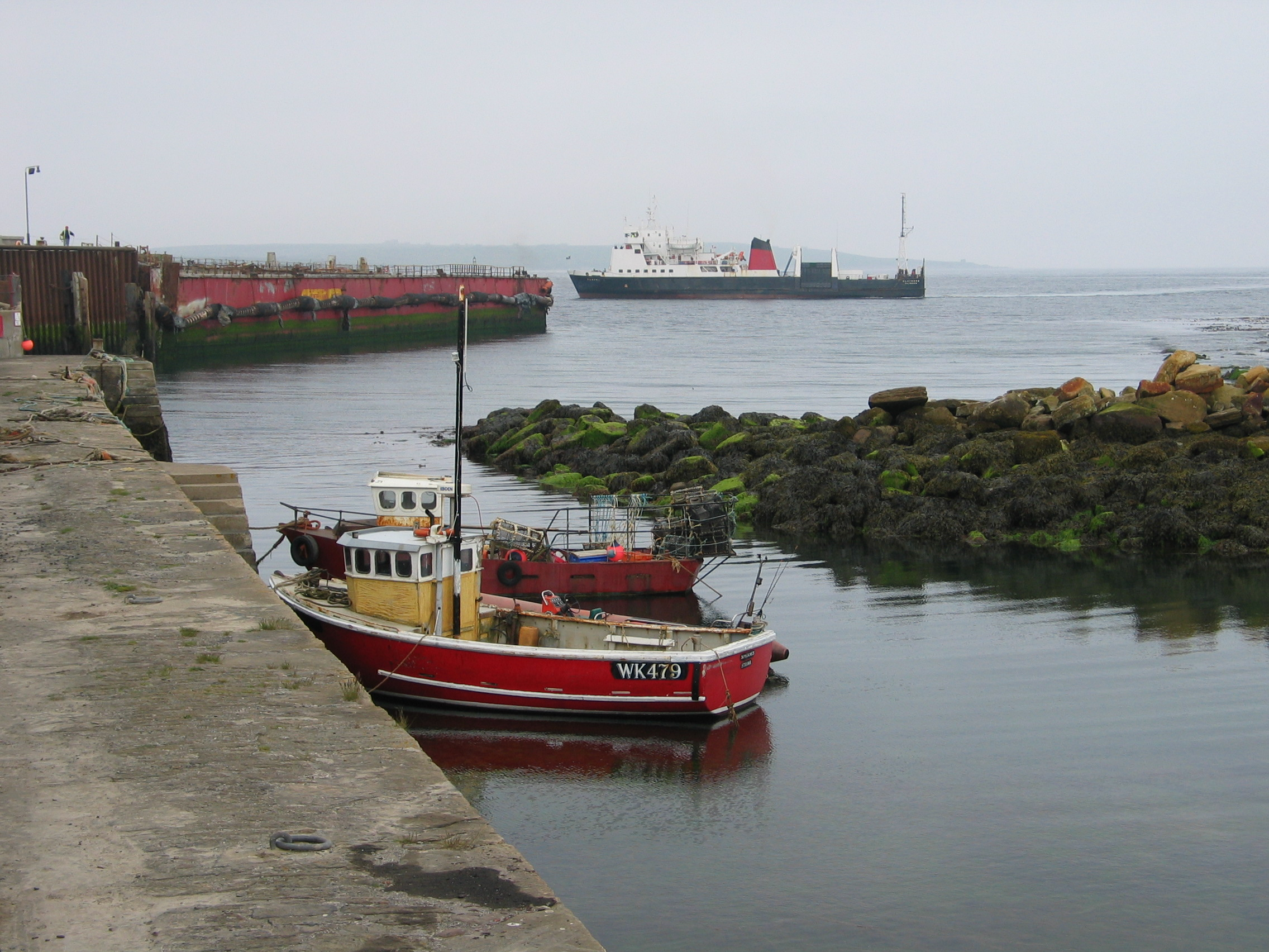 Orkney Ferry, MV Claymore, and fishing boats, Gills Bay, Caithness IMO Number: 7715434 MMSI Number: 235009221 Callsign: GYAE Length: 77 m Beam: 16 m